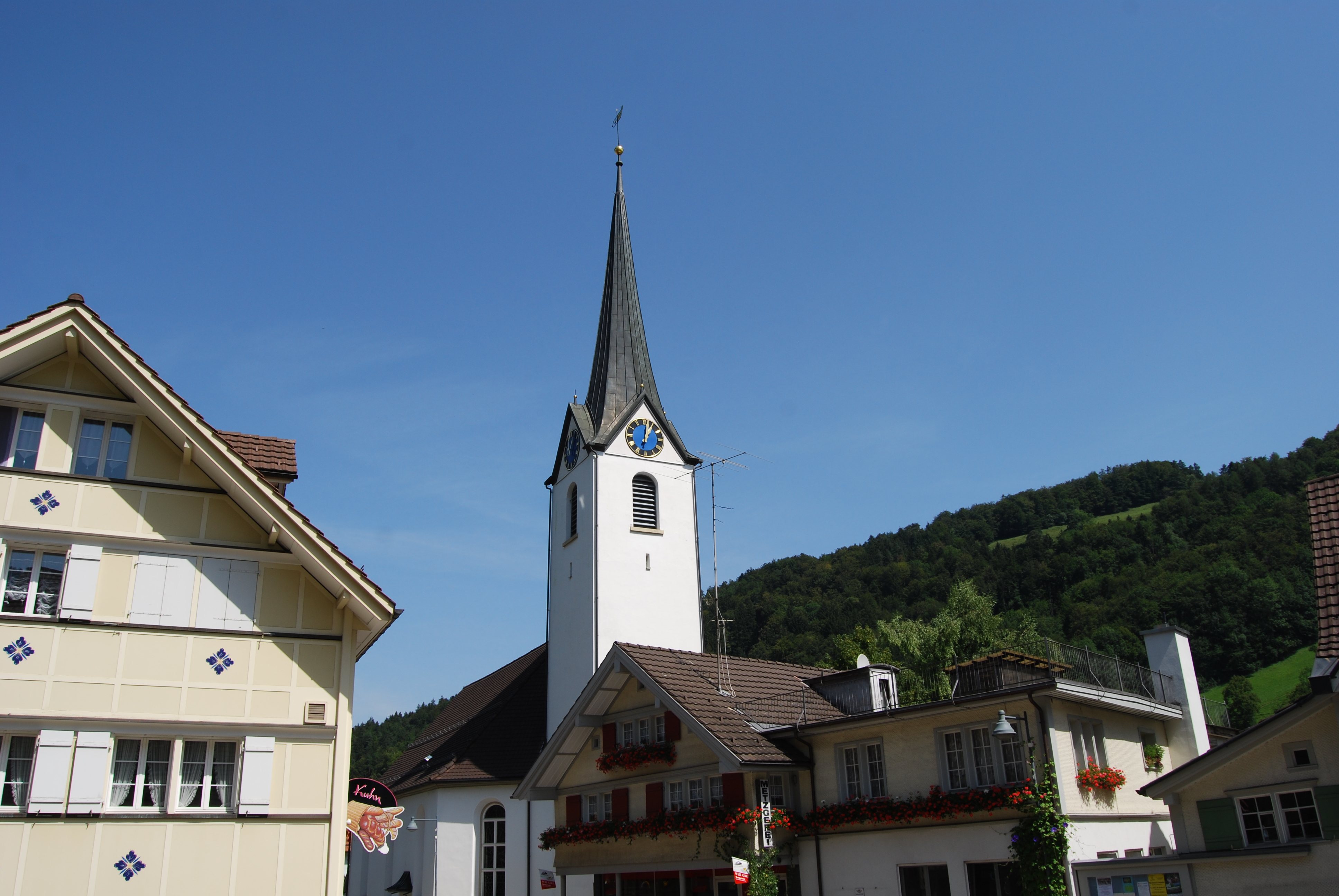 Church of Brunnadern, municipality of Neckertal, canton of St. Gallen, Switzerland